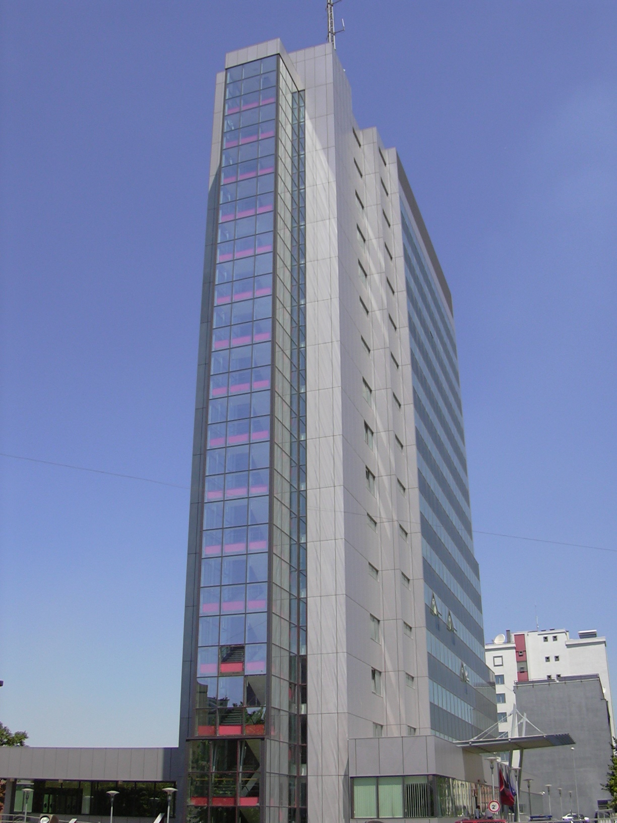 Kosovo Government Building in Prishtina